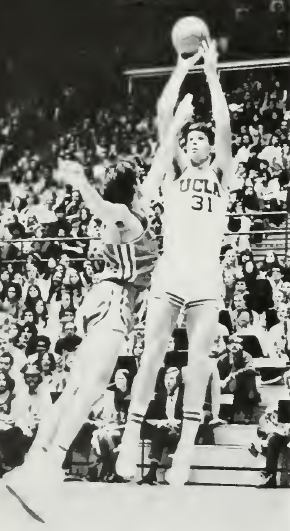 Swen Nater of UCLA Bruins shooting